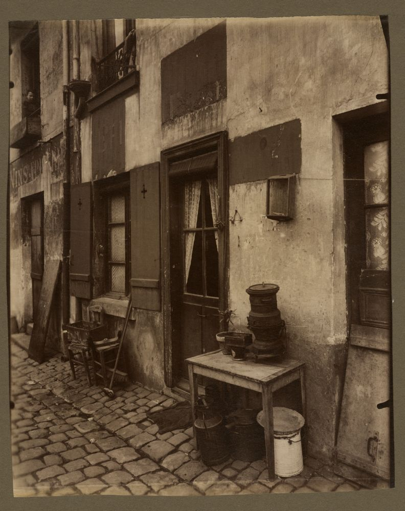 Digital Accession Number: 1978:1628:0085.0001 Maker: Eugène Atget (French, 1857-1927) Title: Un coin de la cite Dore - boulevard de la Gare 90 (13e arr) Date: 1913 Medium: albumen print Dimensions: 22.1 x 17.9 cm. (trimmed) George Eastman House Collection General – information about the George Eastman House Photography Collection is available at For information on obtaining reproductions go to